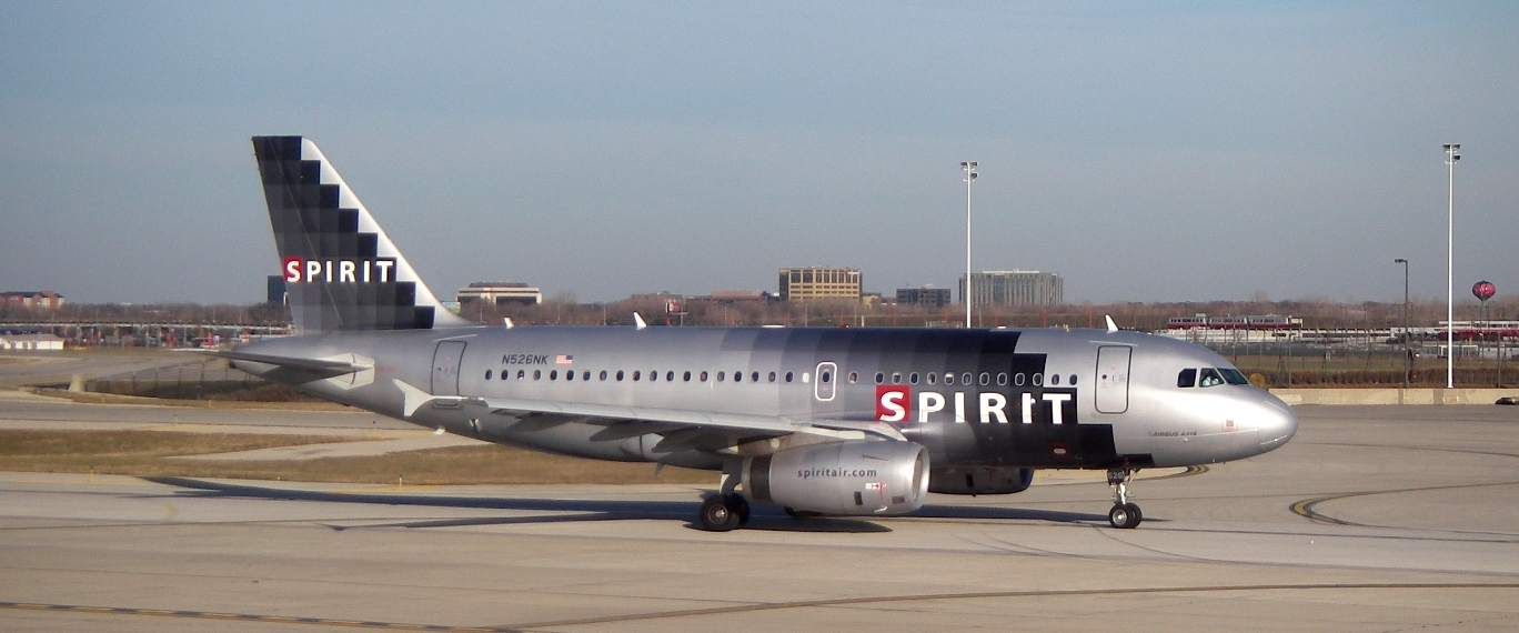 A jet Airbus A319-100 at Midway Airport (Chicago, IL). Belongs to «Spirit» airlines